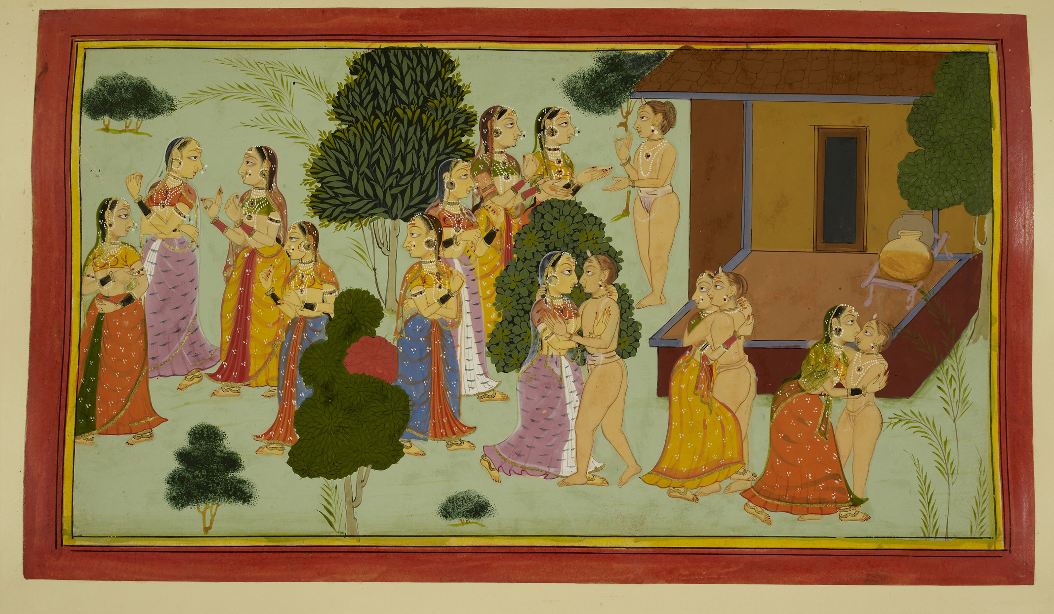 The courtesans tempt Rishyasringa The courtesans try to tempt Rishyasingra to return with them to the court of King Romapada.